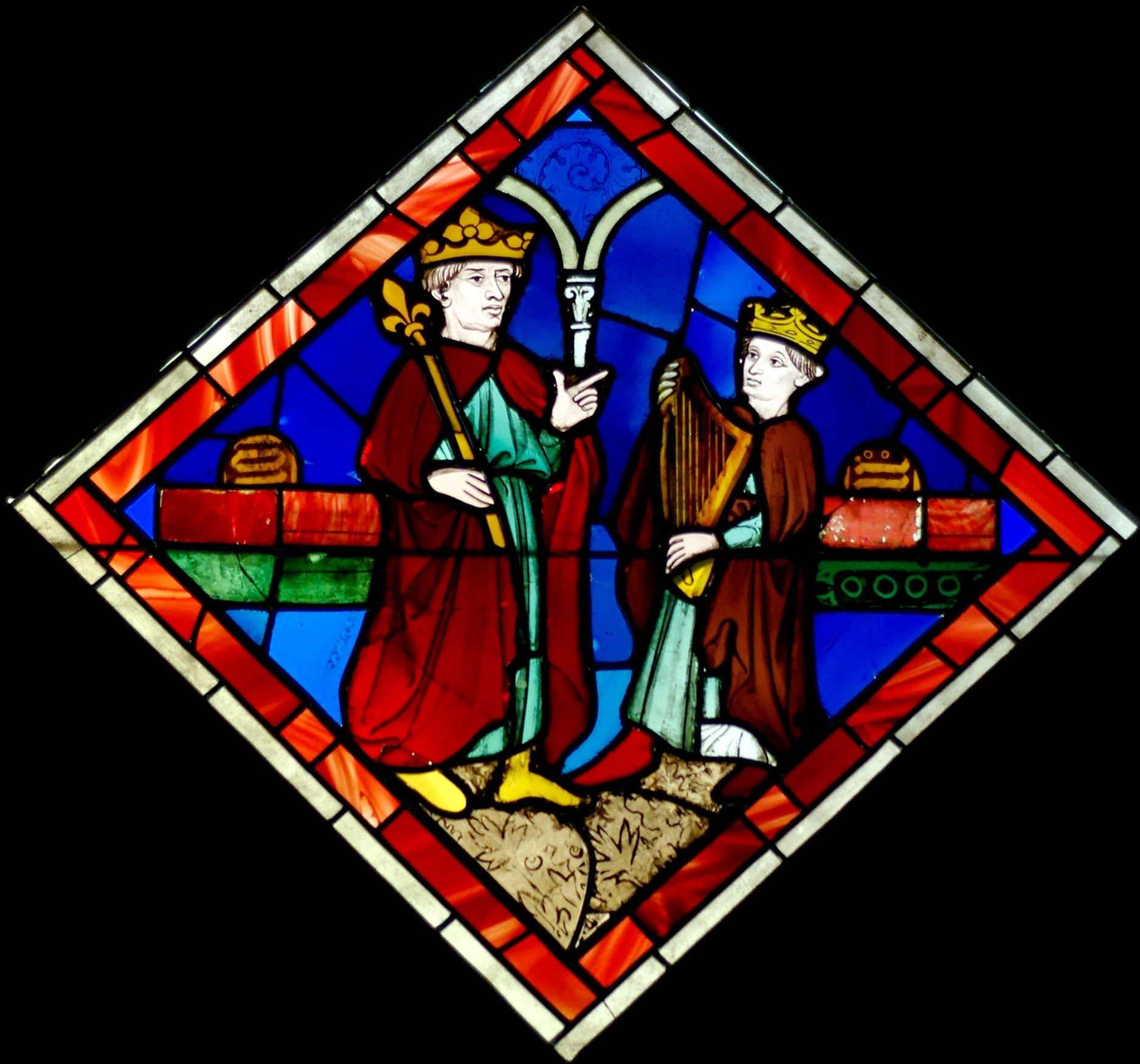 David and Saul. Stained glass, Paris, 15th century (some 13th century elements used again). From the Sainte-Chapelle of Paris, opening B (Kings).